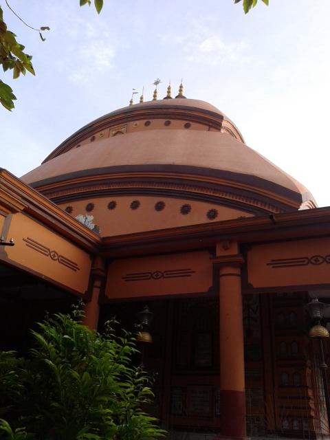 Radha ballav